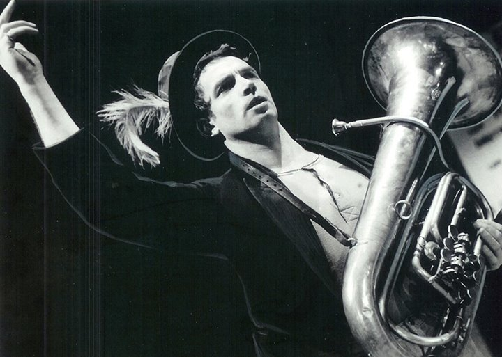 Gipo Farassino in 1969 Piemontèis: Gipo Farassin dël 1969